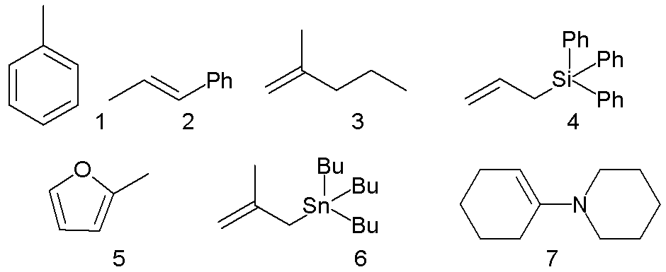 Mayr Nucleophiles